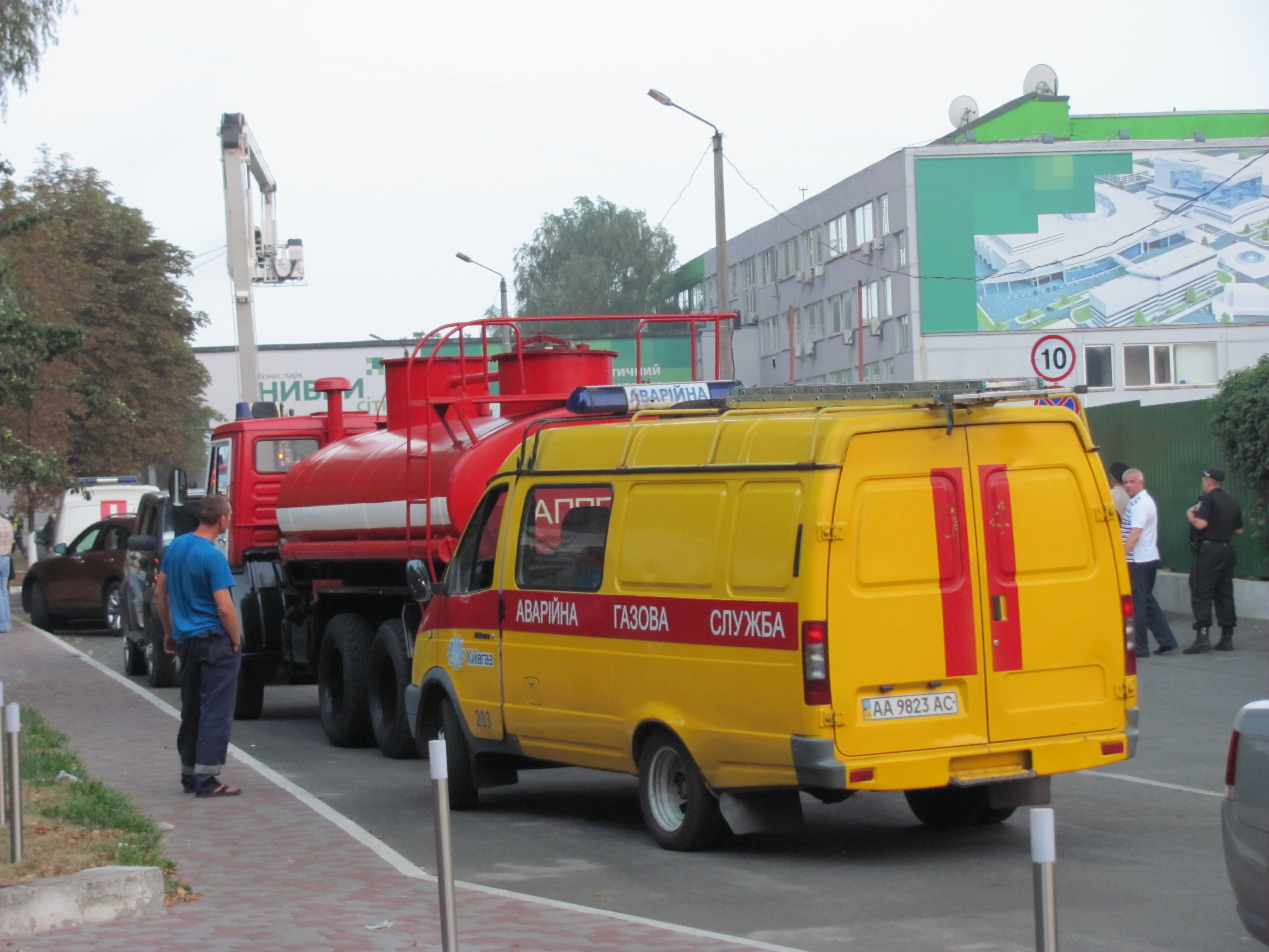 Fire tank truck (red) and gas network emergency vehicle (yellow van) responding to a major fire in Kiev, Ukraine, 2010. A police jeep and an elevated aerial work platform are seen on the left background.